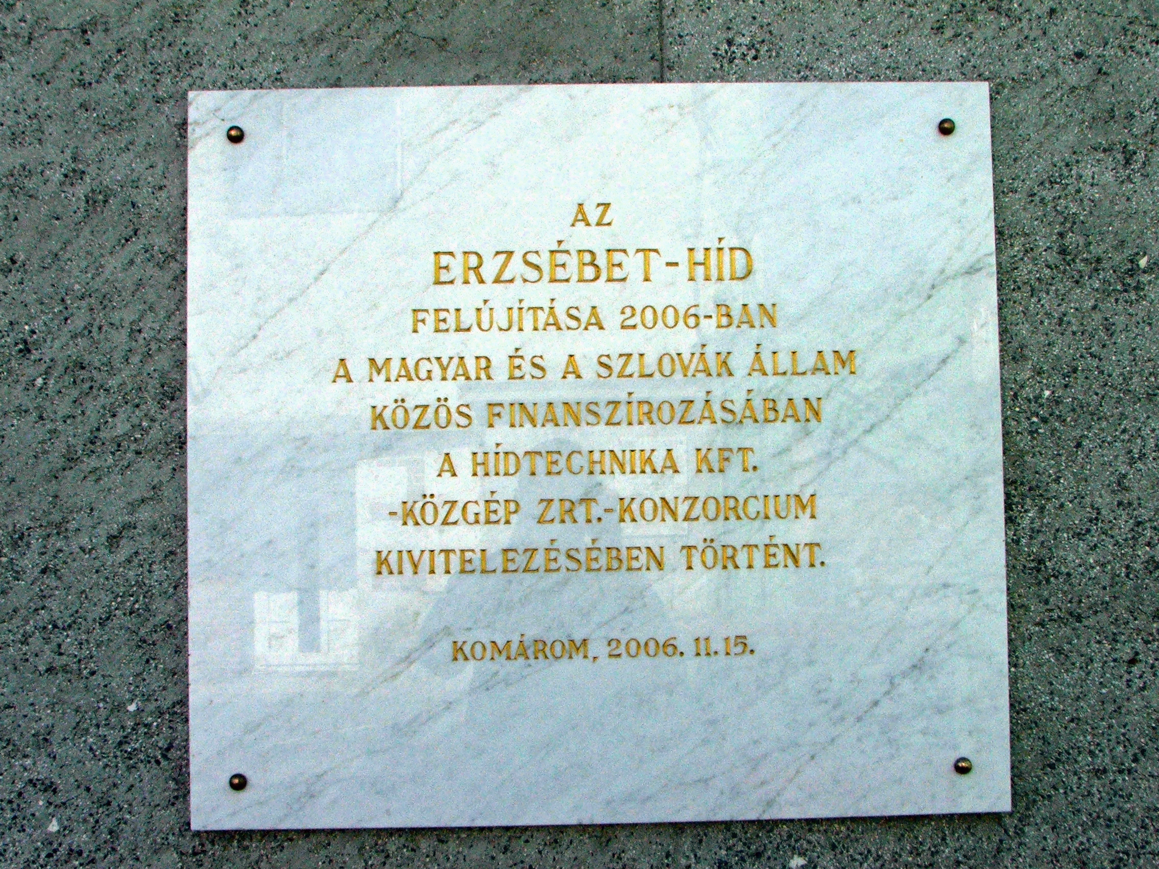 For the renovation of the Elizabeth bridge the board of a memory